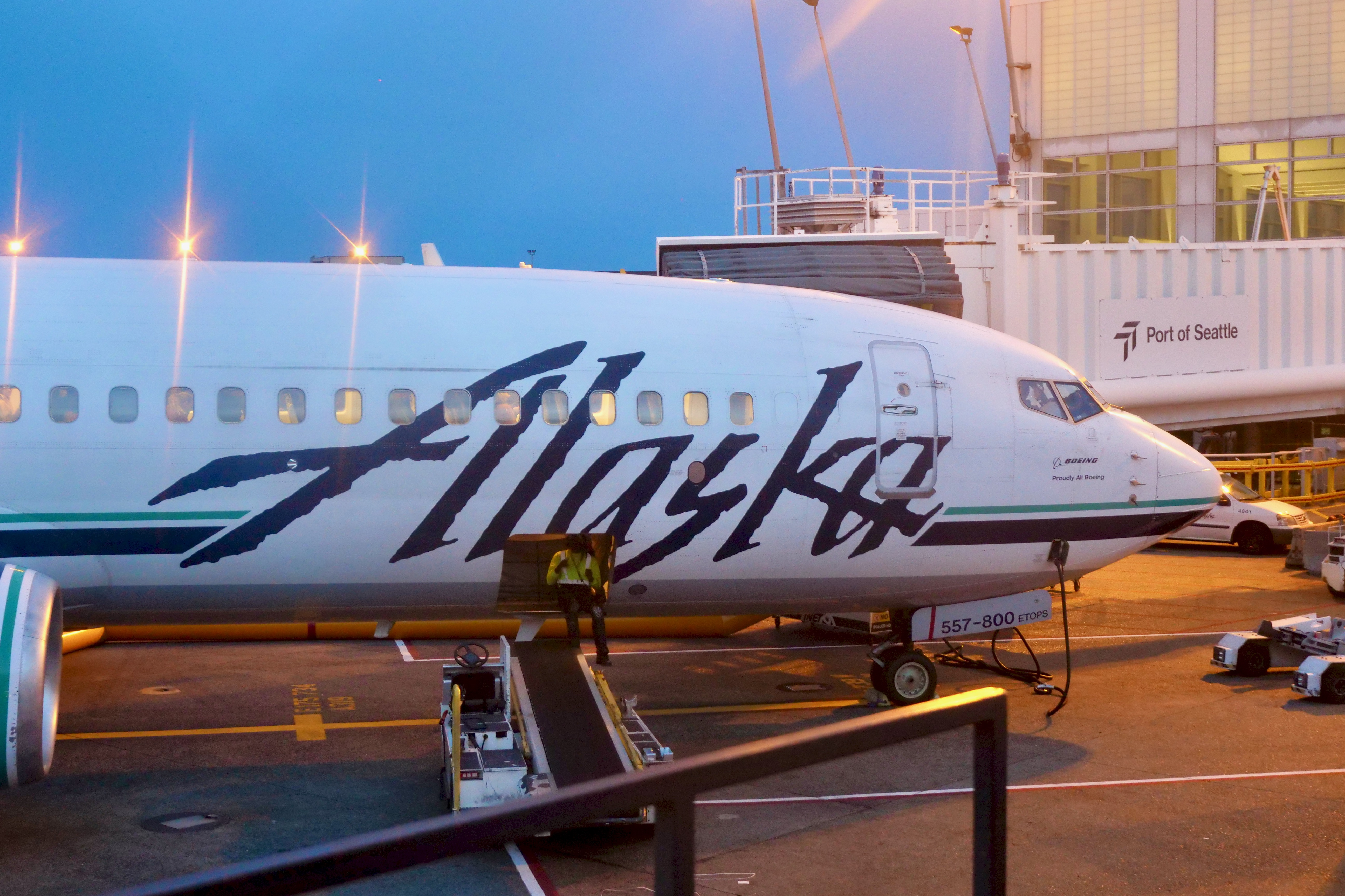 Alaska Airlines 737 with the old logo.